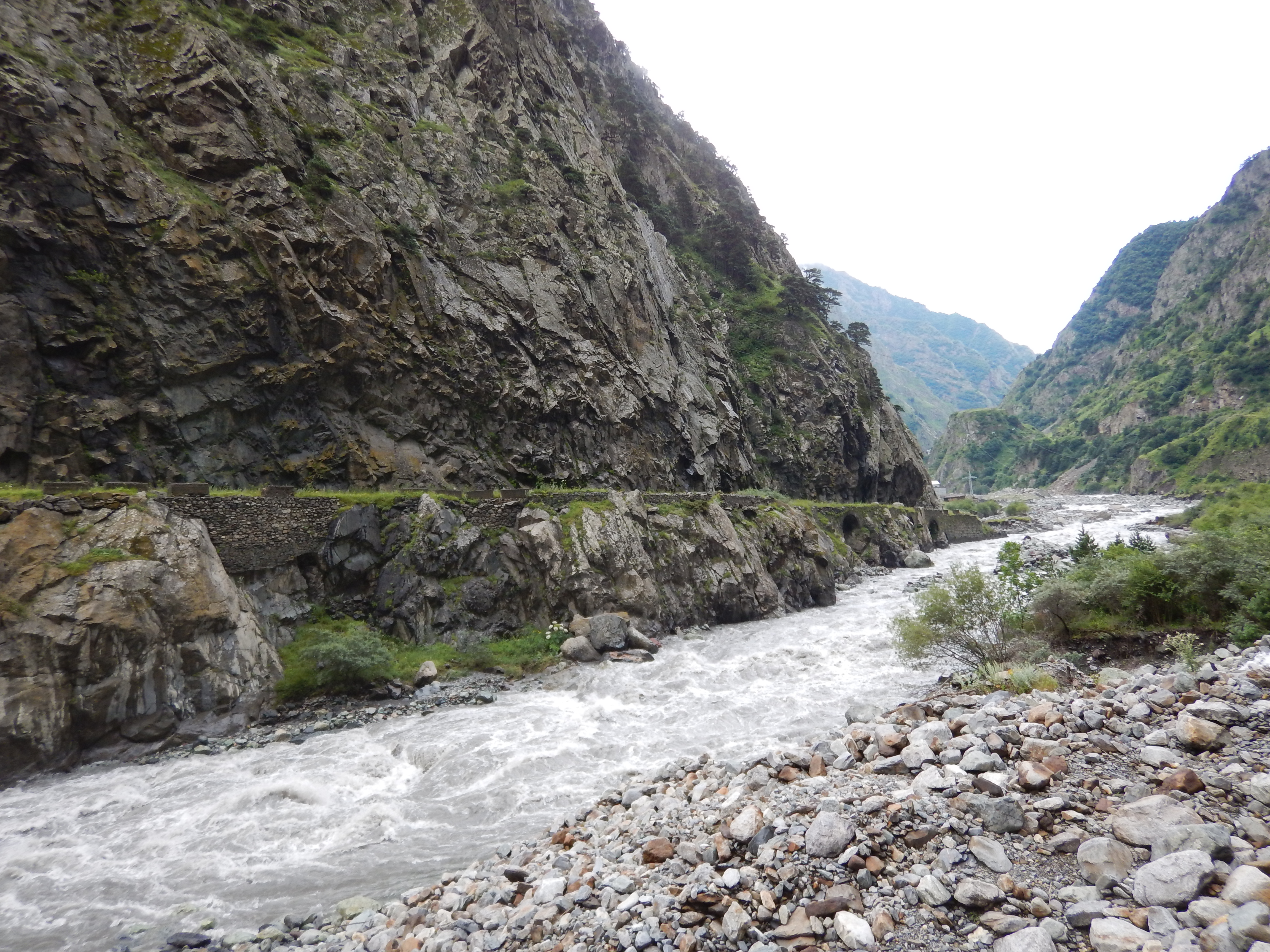 River Terek and the Darial/Dariali Gorge in its narrowest part. In the foreground, the left bank of the fast Terek River (Tergi) flowing southward. About half a kilometre behind the photographer's back crosses the Georgian-Russian border. On the left side of the picture, we can see the steep banks of the Okhuri range at the base of which the north-south road was crossed (Russia-Georgia), and a road tunnel was carved in order. This is the so-called Georgian Military Road. In the background, on the right, just above the bend of the river, there is a lump of rock on which the antiquity built in antiquity called: Alans Gate (after presence of ancient tribe called - Alans), Caspian Gate, Iberia Gate, Cumania / Kumania. On the right side of the photograph, the northern part of the Mkinvartsveri / Kazbeg mountain massif (5047) was taken. The picture was taken on the left bank of the Terek River, in the no-man's belt. The camera lens is directed to the south.